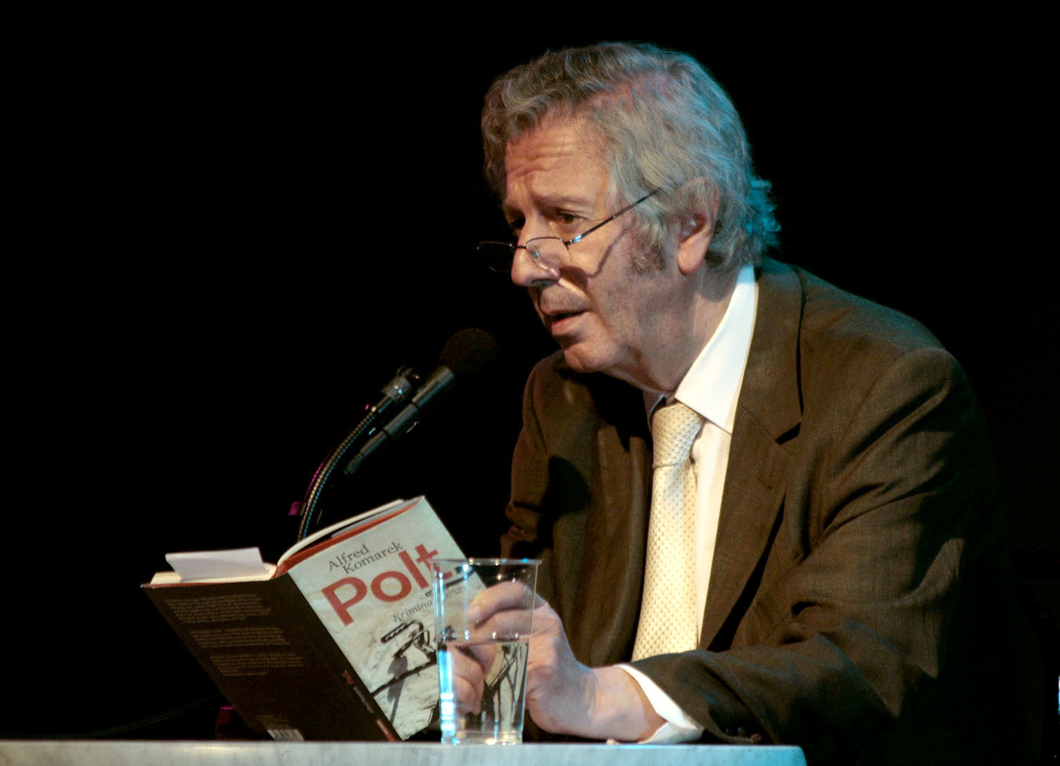 Writer Alfred Komarek reading from Polt (literary evening "Rund um die Burg" 2009 near the Burgtheater in Vienna).